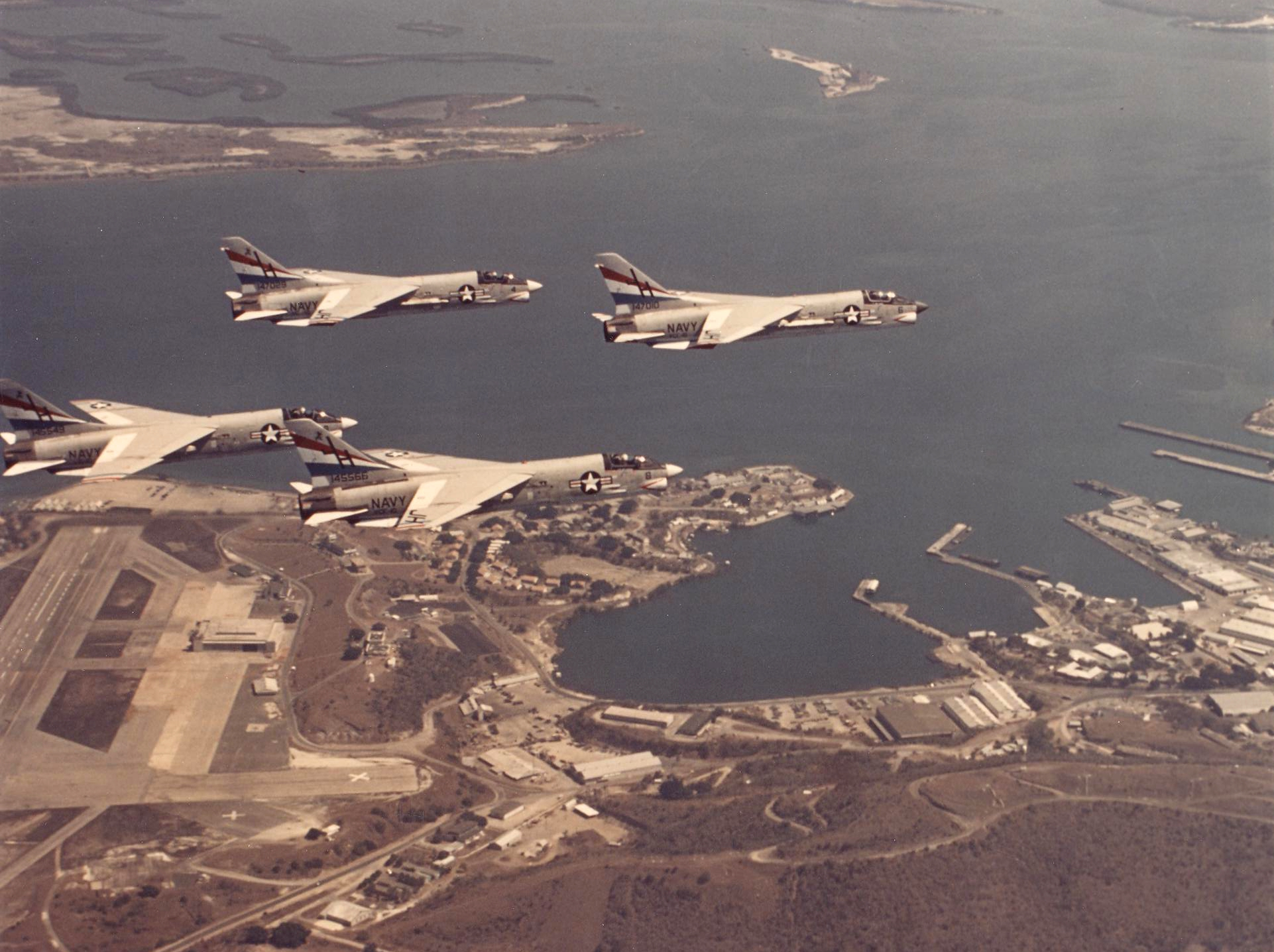 Four U.S. Navy Vought F-8K Crusader (BuNo 145549, 145566, 147010, 147029) of Fleet Composite Squadron VC-10 "Challengers" fly over McCalla Field, Guantanamo Bay, Cuba, in 1974.